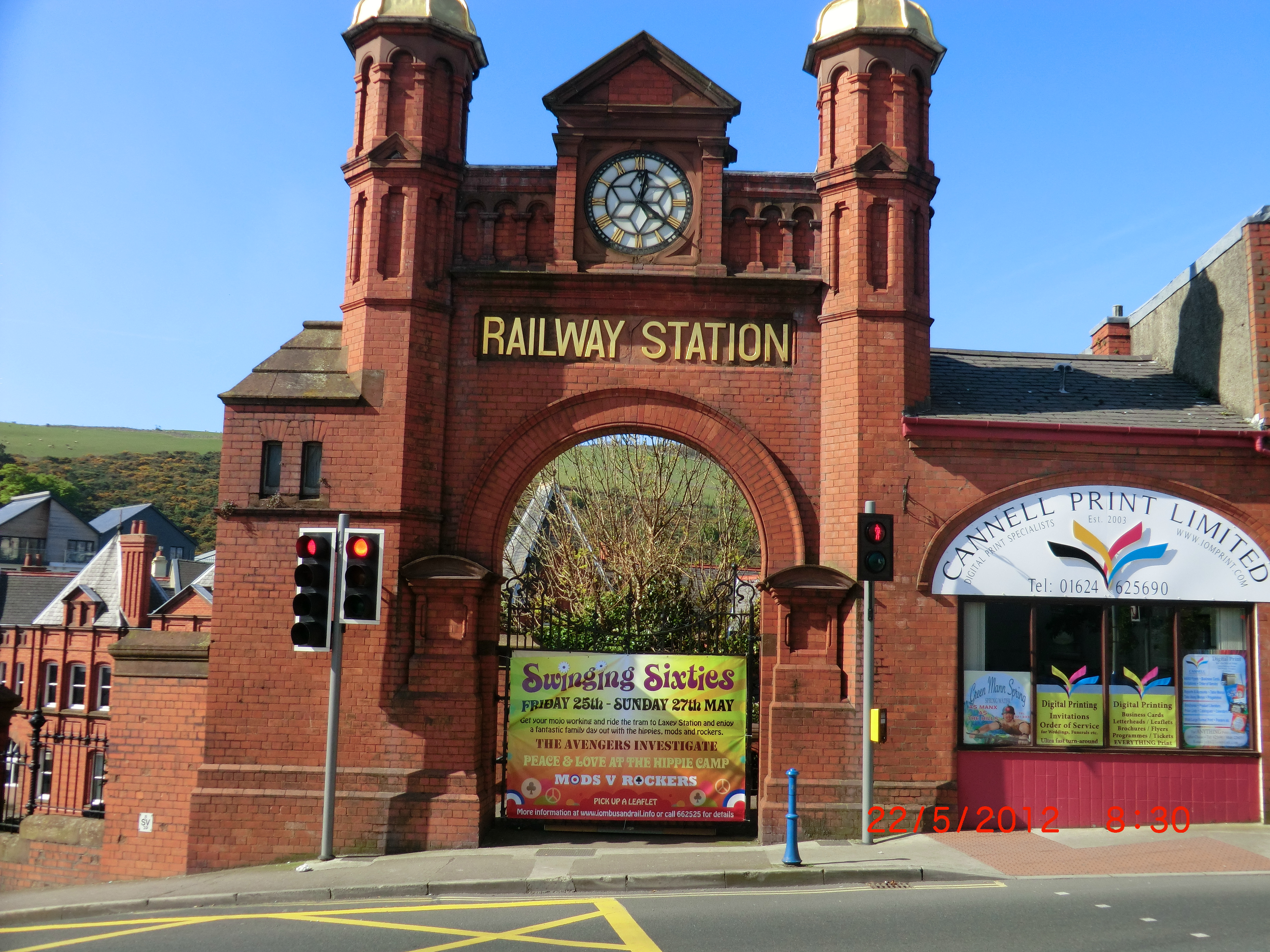 Douglas Railway Station Entrance